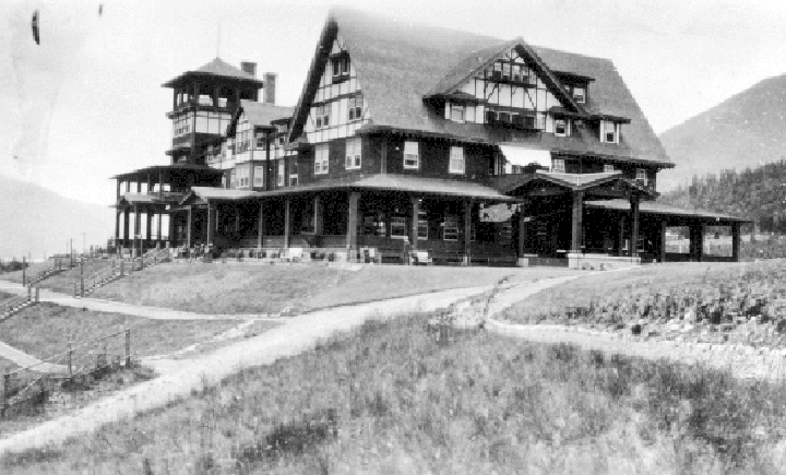 Photographer:Unknown Photo taken:1918 Source #F-04078 [1]